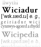 Logo made for Welsh Wiktionary per request of Adam7davies